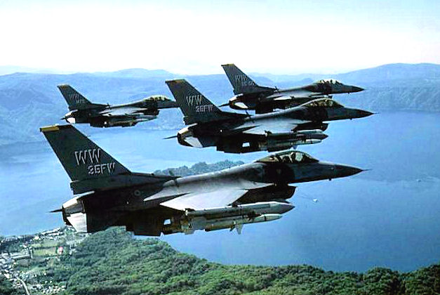 Misawa F-16CJ Block 50 Flagships (left to right): #92901 35th W Flagship, #90812 14th FS, #90802 PACAF Demo aircraft and #90801 35th OG. [USAF photo]